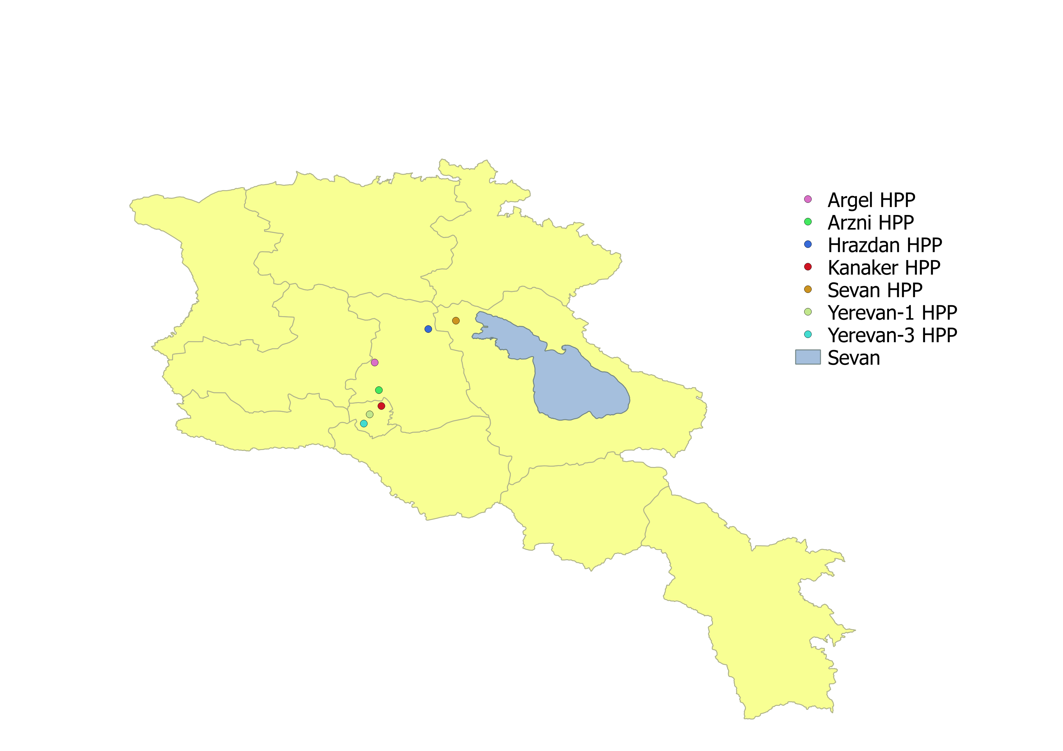 Sevan-Hrazdan Cascade HPPs